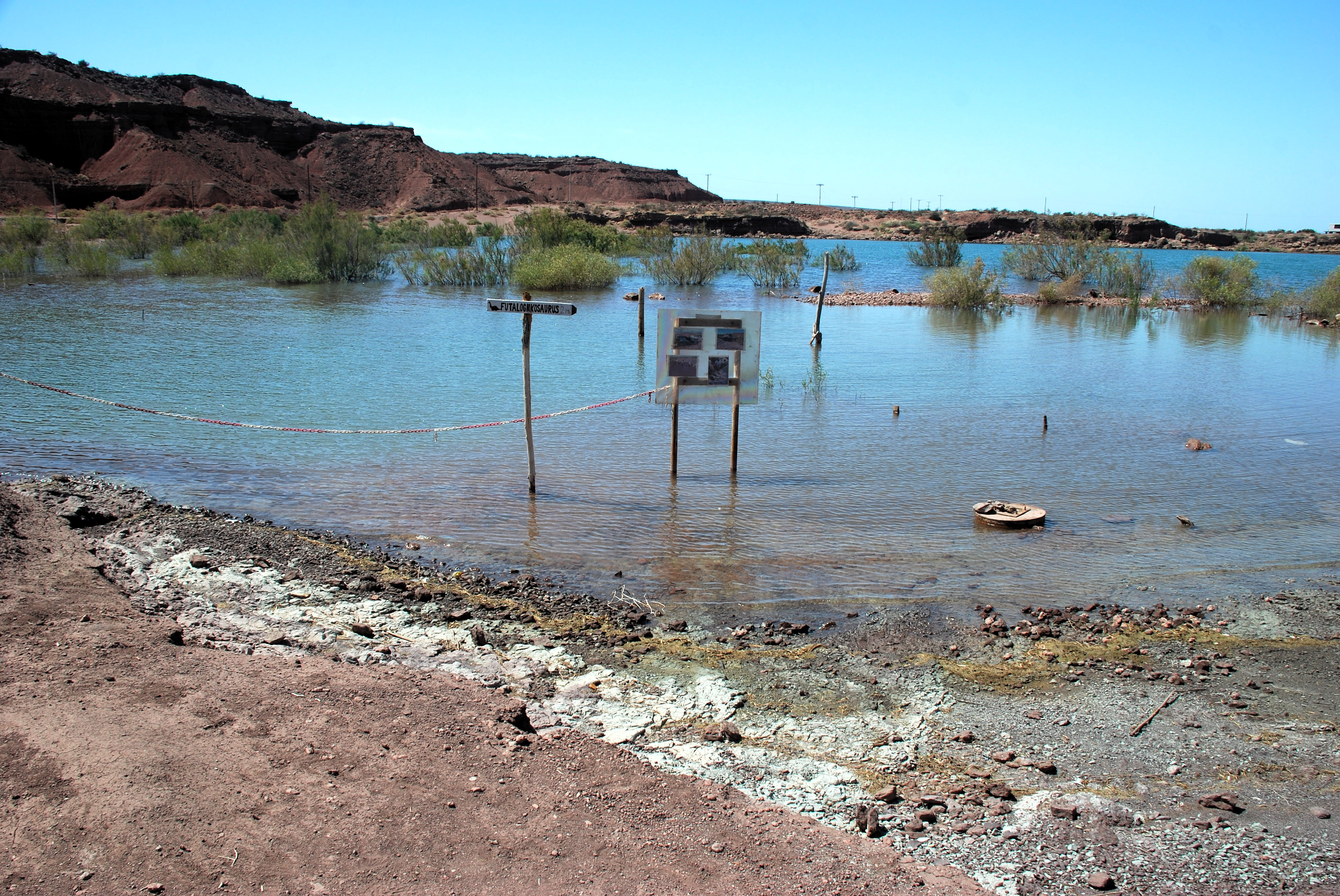 Excavation at the Centro Paleontológico Lago Barreales (CEPALB), in the region Neuquén, Argentina, where the Futalognkosaurus was discovered